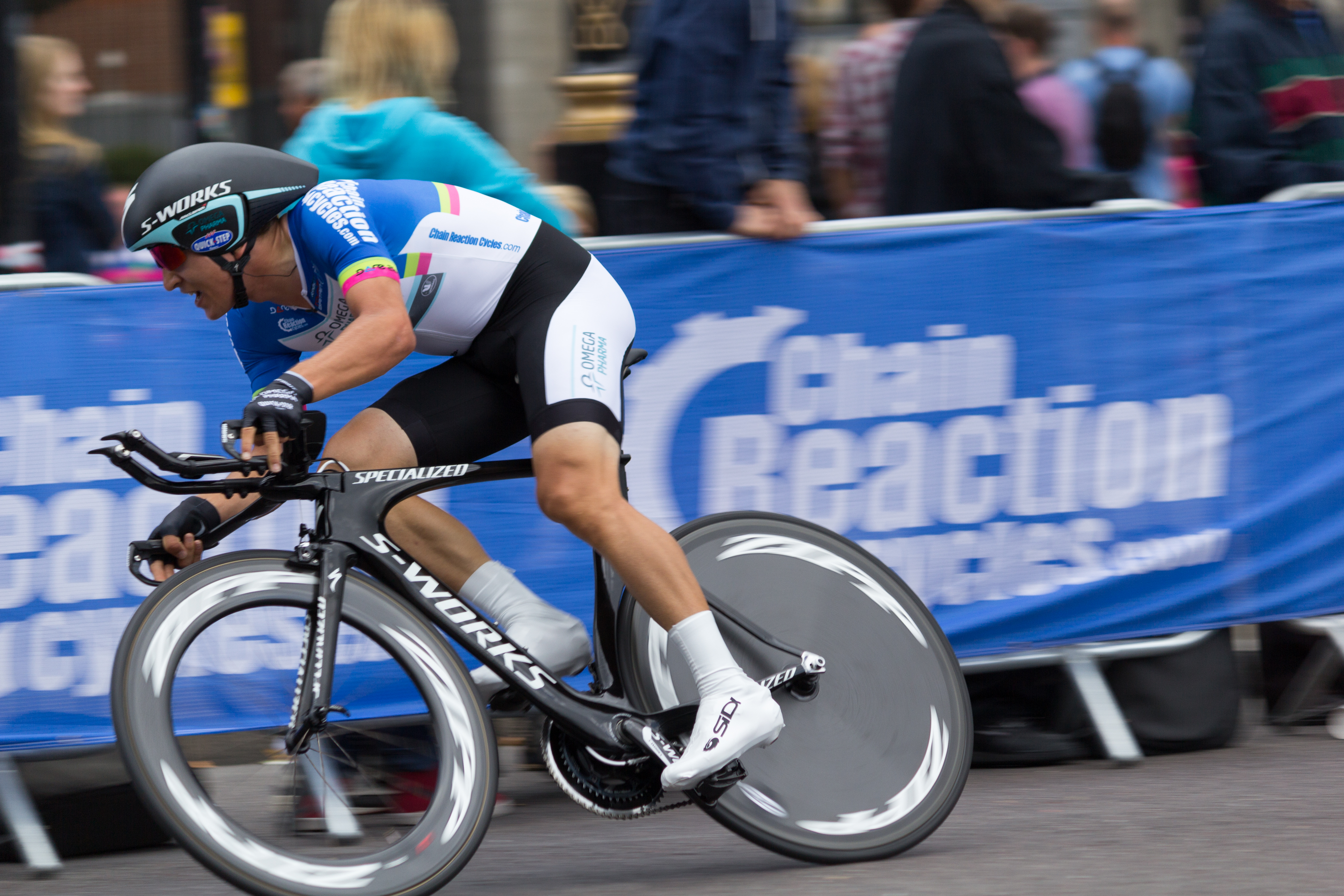 Tour of Britain 2014 stage 8a - London time trial